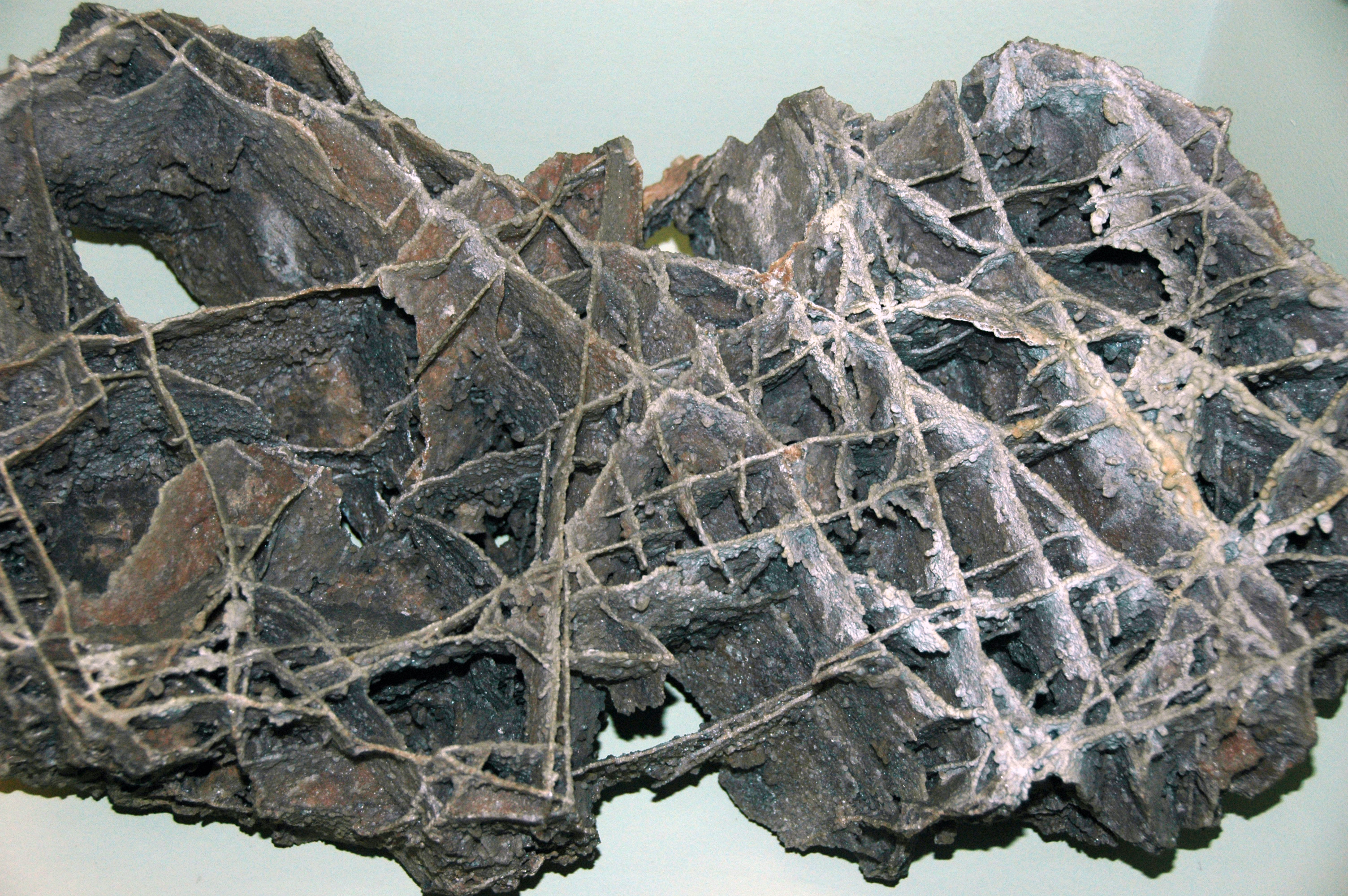 Calcite boxwork from Wind Cave, southern Black Hills, western South Dakota, USA (public display, Field Museum of Natural History, Chicago, Illinois, USA). Boxwork is a scarce cave feature characterized by a network of intersecting veins projecting from cave walls or ceilings. Boxwork veins are typically composed of calcite, but quartz and gypsum boxwork have also been reported. Wind Cave in South Dakota’s Black Hills is the best locality on Earth for seeing abundant, well-developed boxwork. Prima facie, boxwork appears to be “just” the result of differential dissolution of intensely fractured-and-veined limestone during cave formation. Research by karst workers has shown that boxwork at Wind Cave (and other localities) has a complex origin, and requires the original presence of carbonate and sulfate sedimentary rocks (see Palmer, 2007). Synthesized from: Palmer, A.N. 2007. Cave Geology. Dayton. Cave Books & Cave Research Foundation. 454 pp.